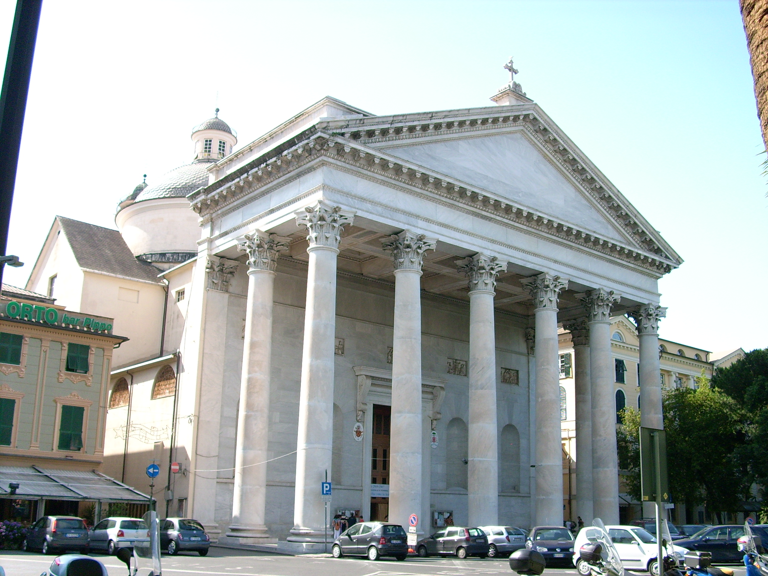 Chiavari, pronaos of the Cathedral of Nostra Signora dell'Orto, built in 1836 after a project by Luigi Poletti.